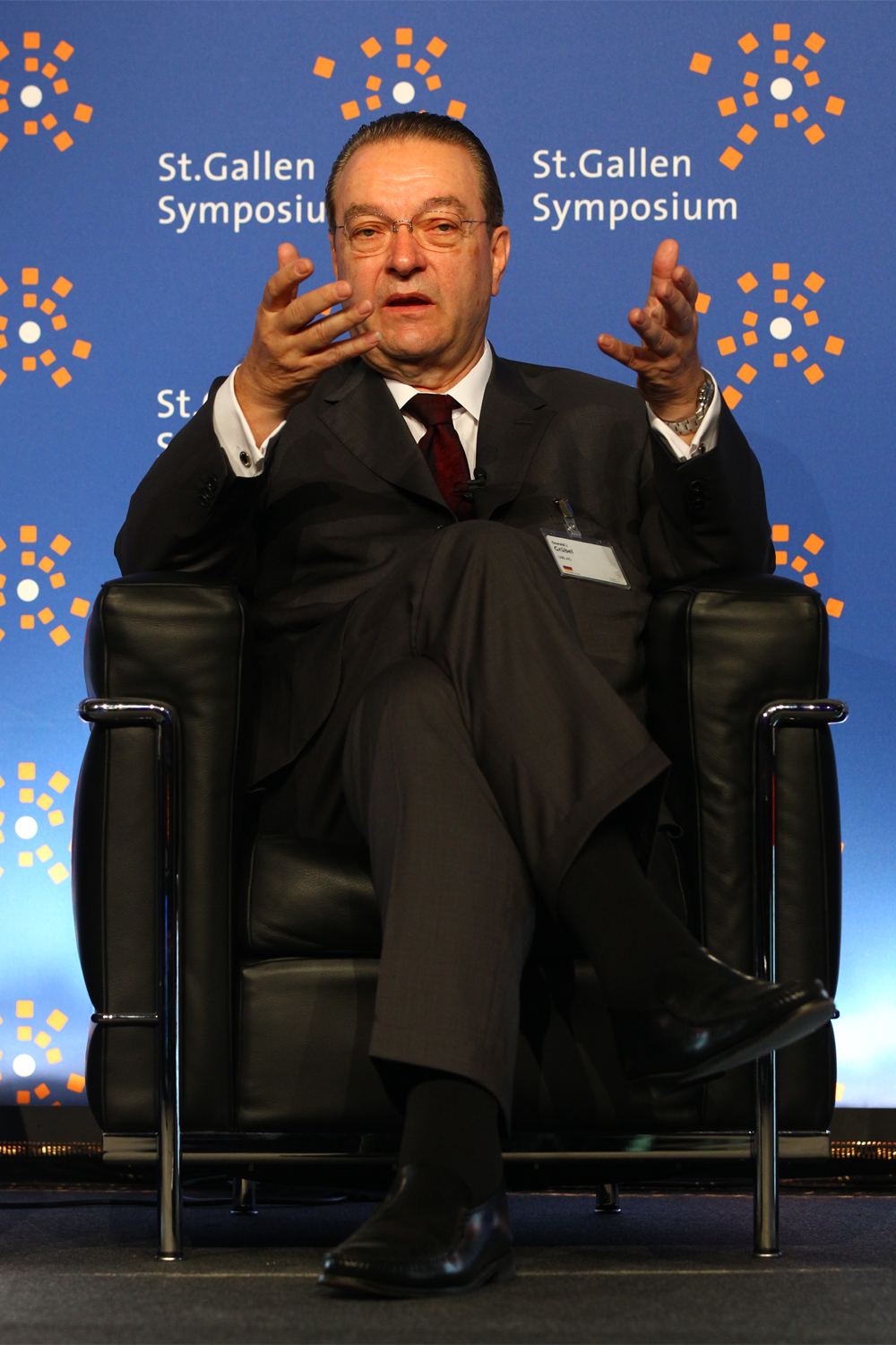 Oswal Grübel in May 2011 at the 41. St. Gallen Symposium at the University of St. Gallen